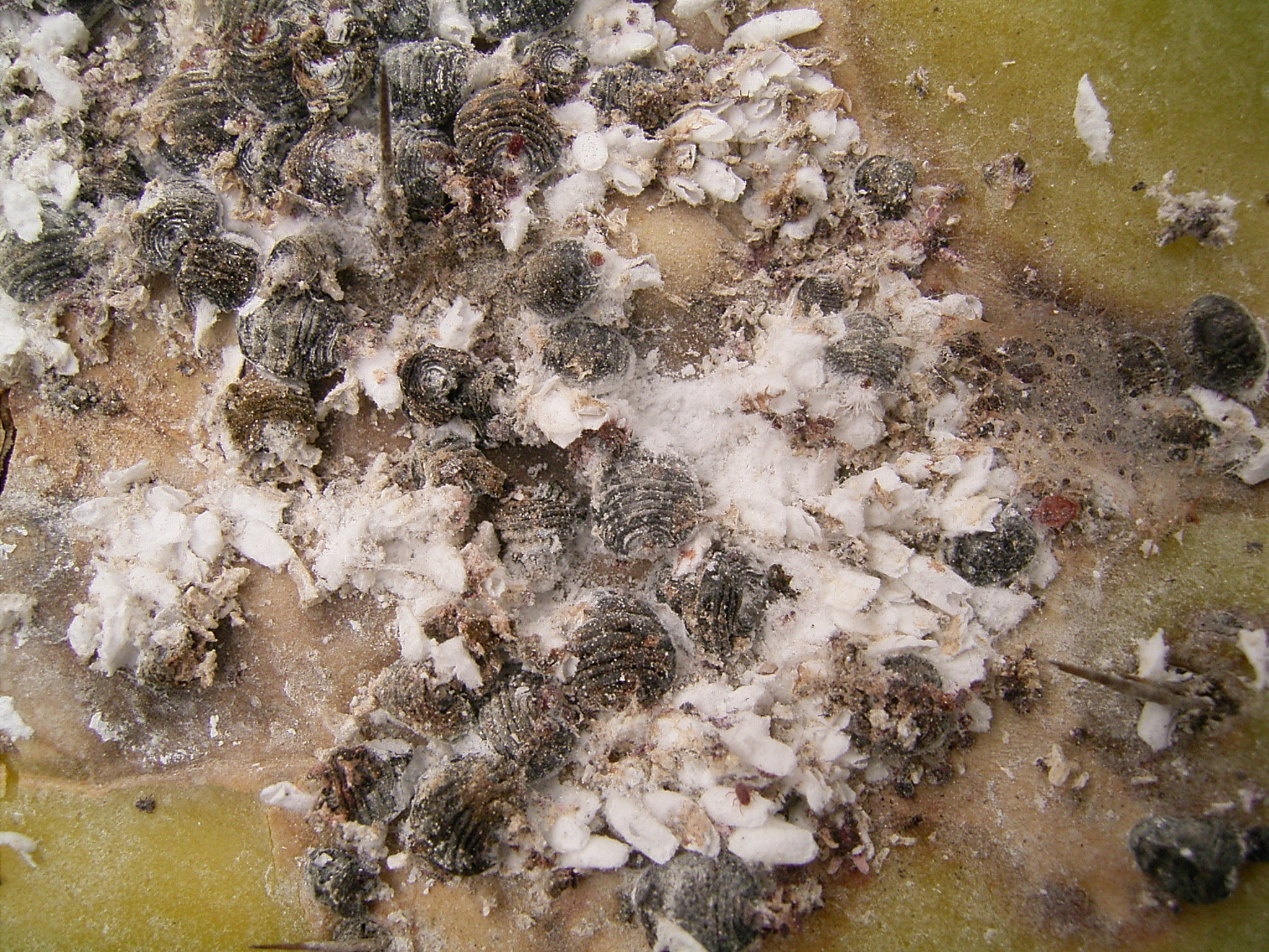 Dactylopius coccus growing in El Paso, La Palma, Canary Islands